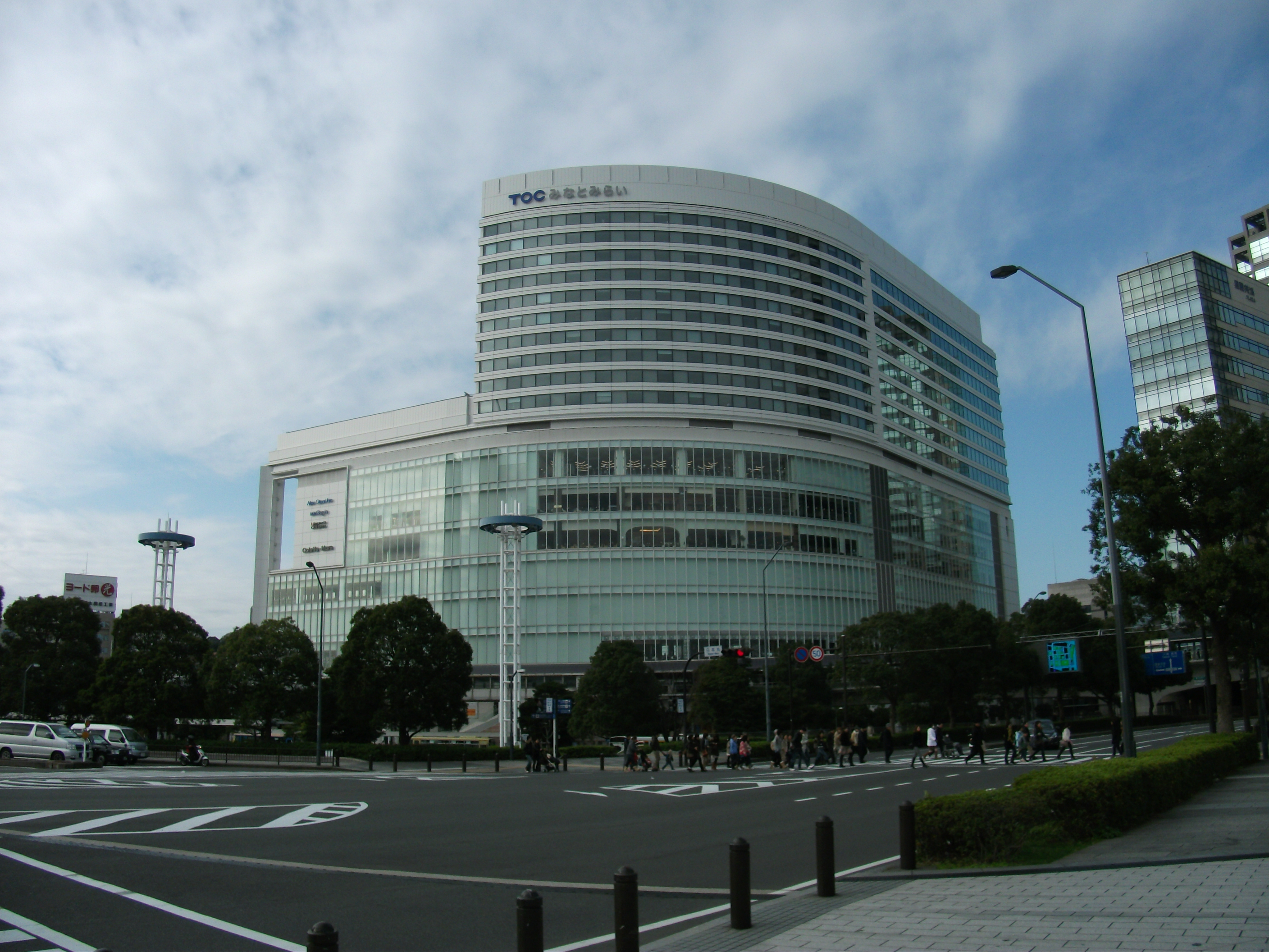 TOC_Minatomirai (Yokohama, Japan)